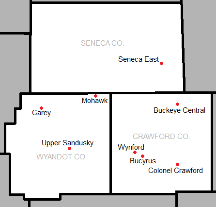 Shows the member schools' locations of the N10 in its inaugural year of 2014-15.